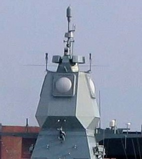 The Thales Nederland Active Phased Array Radar (APAR), mounted on the German Sachsen class frigate Hamburg (F 220); ITU-classificatio: Radiolocation land station in the radiolocation service.